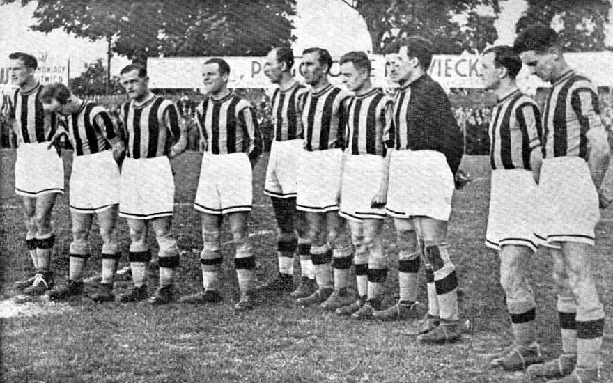 Polish football club Pogoń Lwów